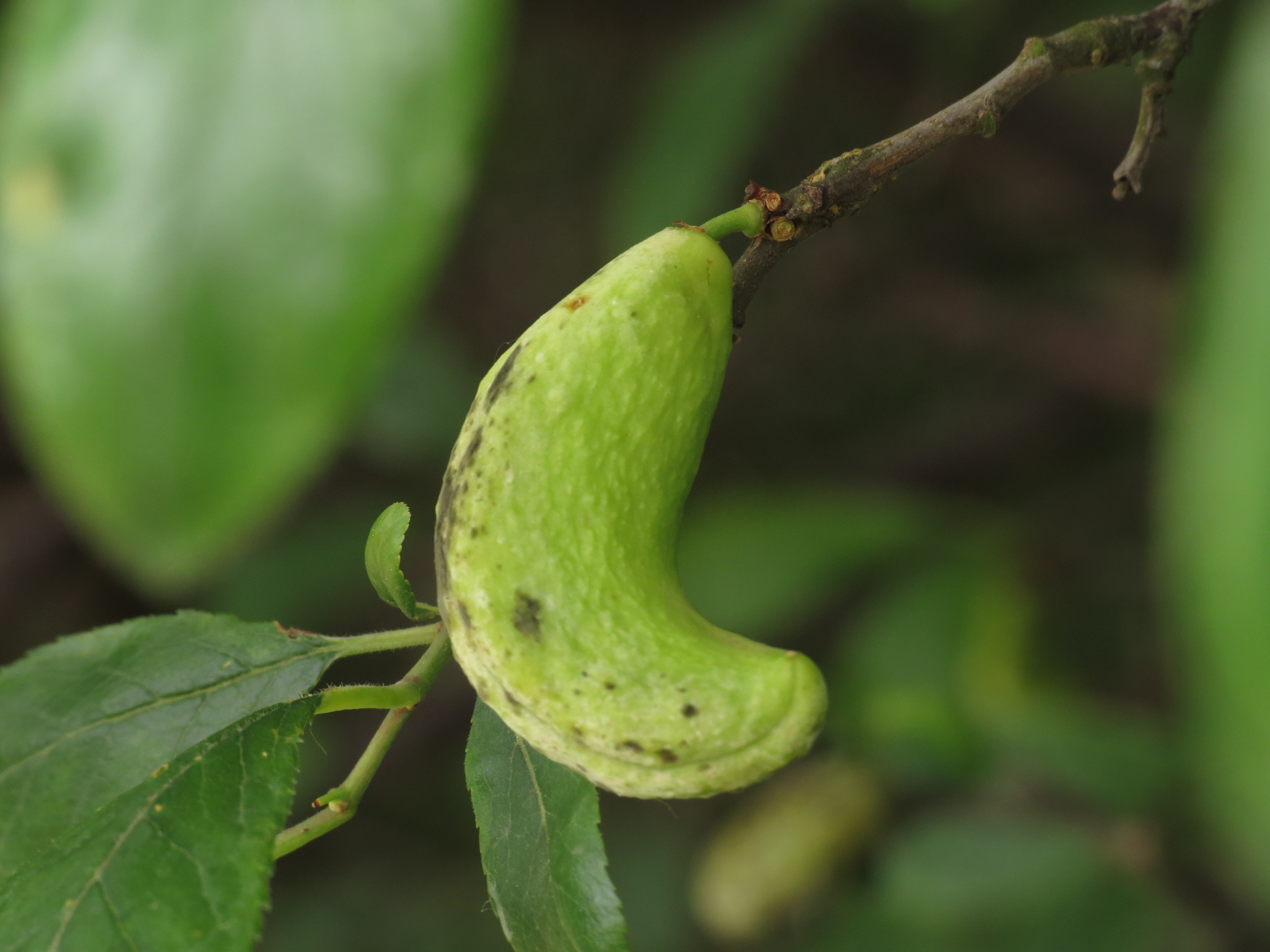 Taphrina pruni Tul., 1866, galls on Prunus spinosa L., Blackthorn, Utterslev Mose, Søborg, Denmark, 23 June 2015